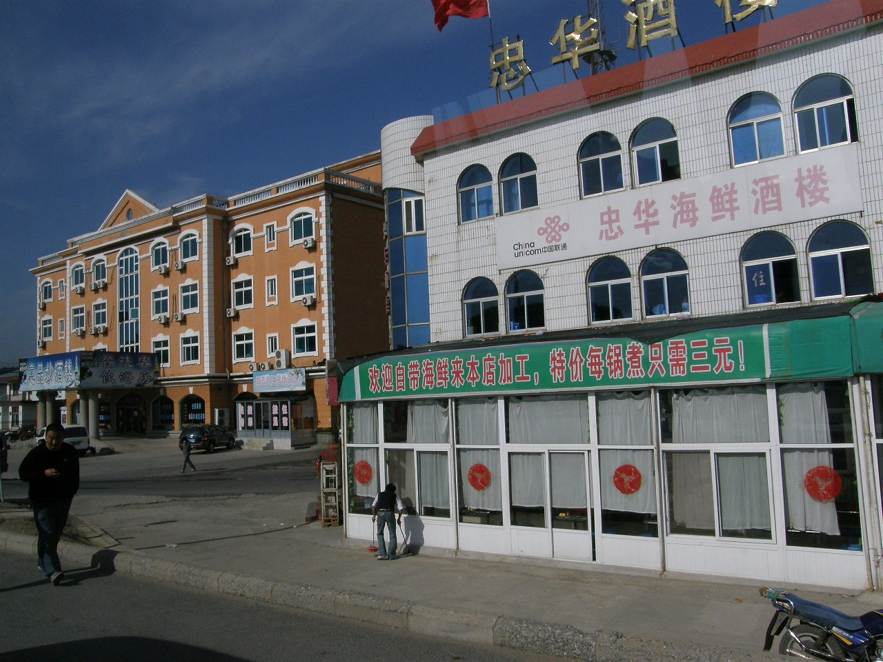 Lüshun city